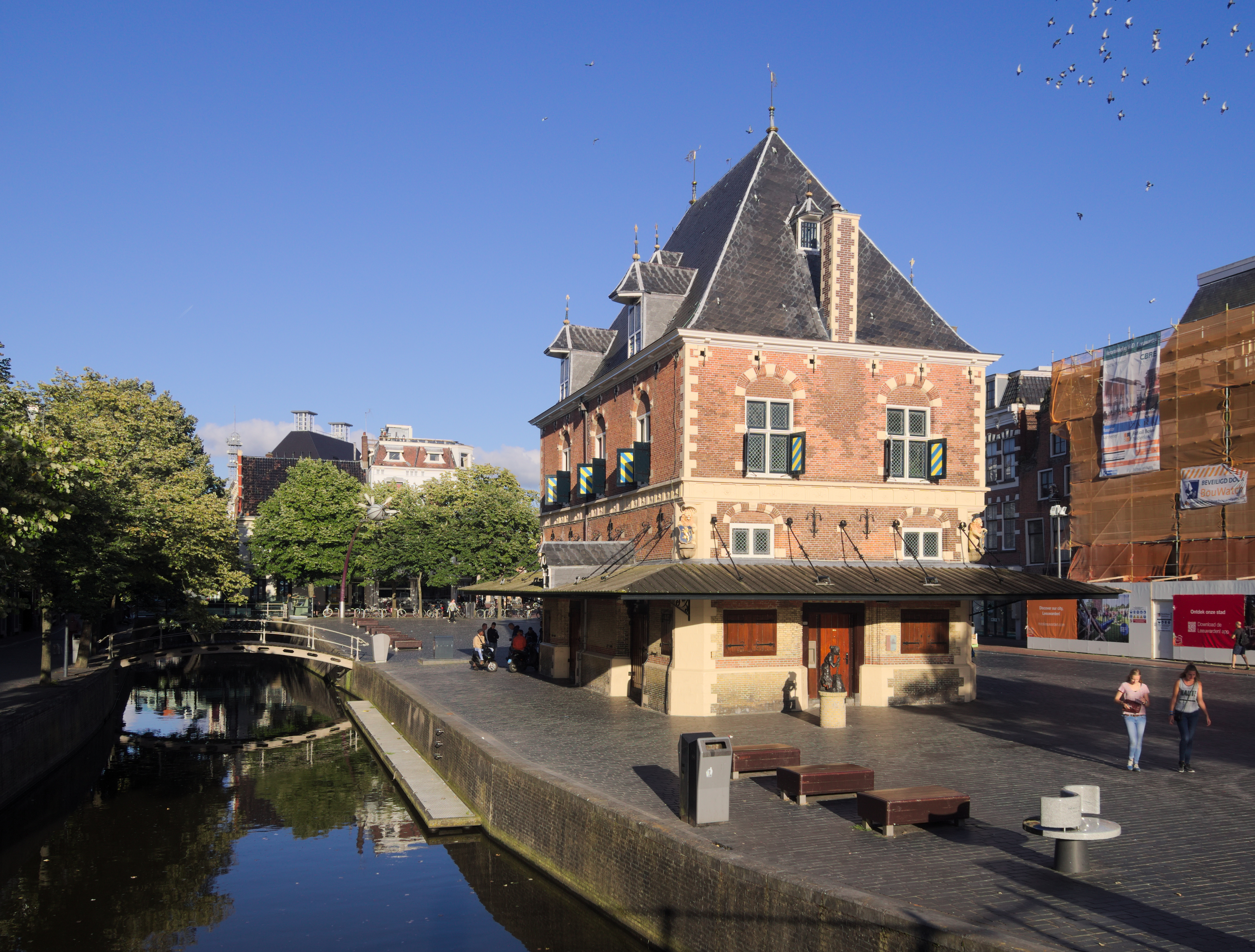 The Waag in Leeuwarden